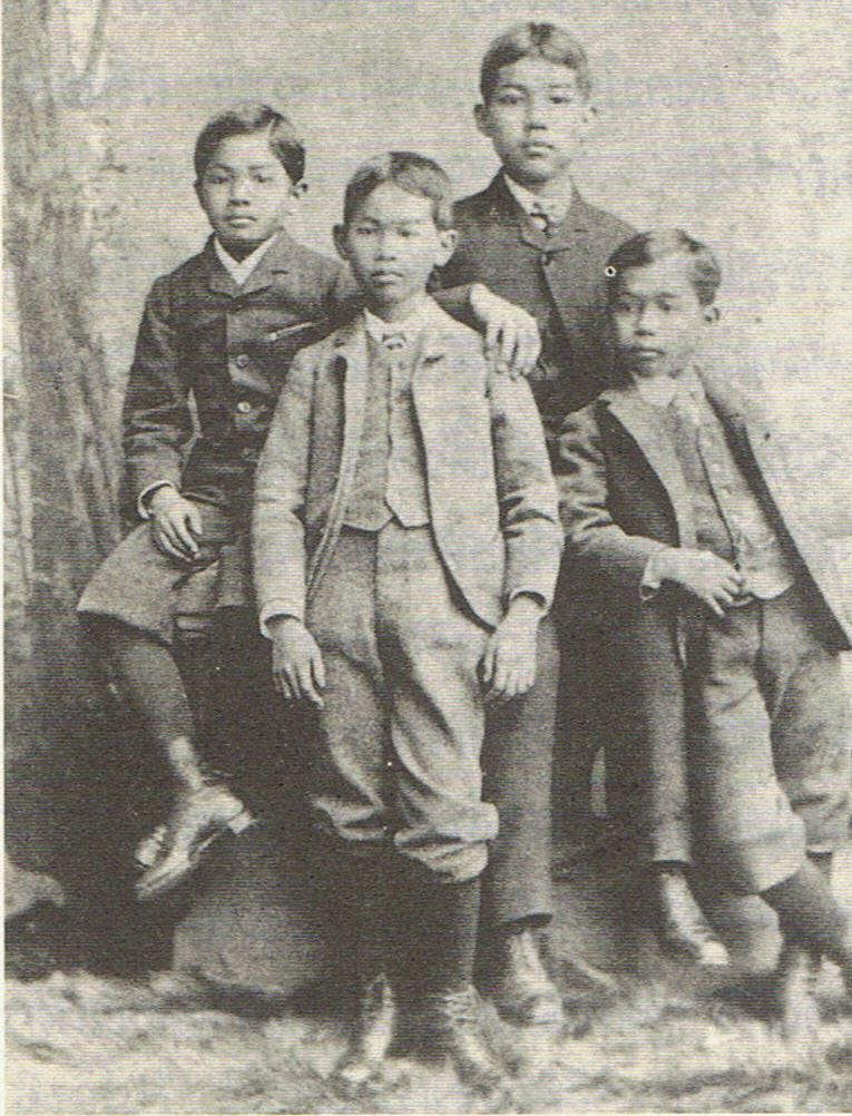 Four sons of Chulalongkorn: Prince Rabhibhatanasakdi, Prince Pravit Vadhanodom, Prince Chirapravati Voradej, and Prince Kitiyakara Voralaksana (if you know which is which, please specify).